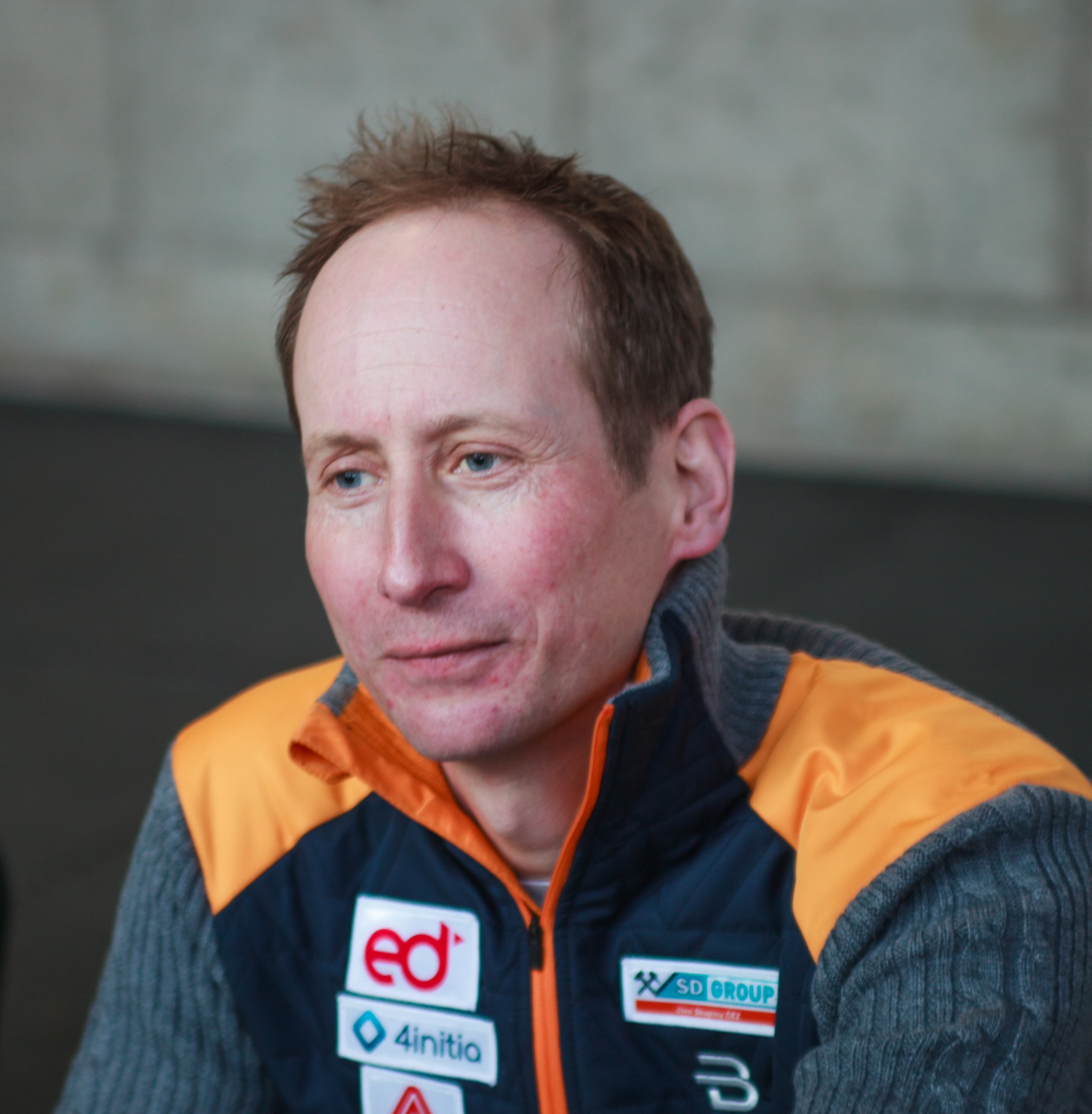 Lukáš Bauer on cross-country race ČEZ City Cross Sprint 2019